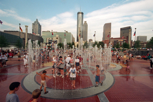 The Centennial Olympic Park in Atlanta